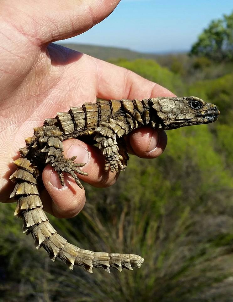 Ouroborus cataphractus - in sandveld 10km west of Trawal - South-western Cape, South Africa